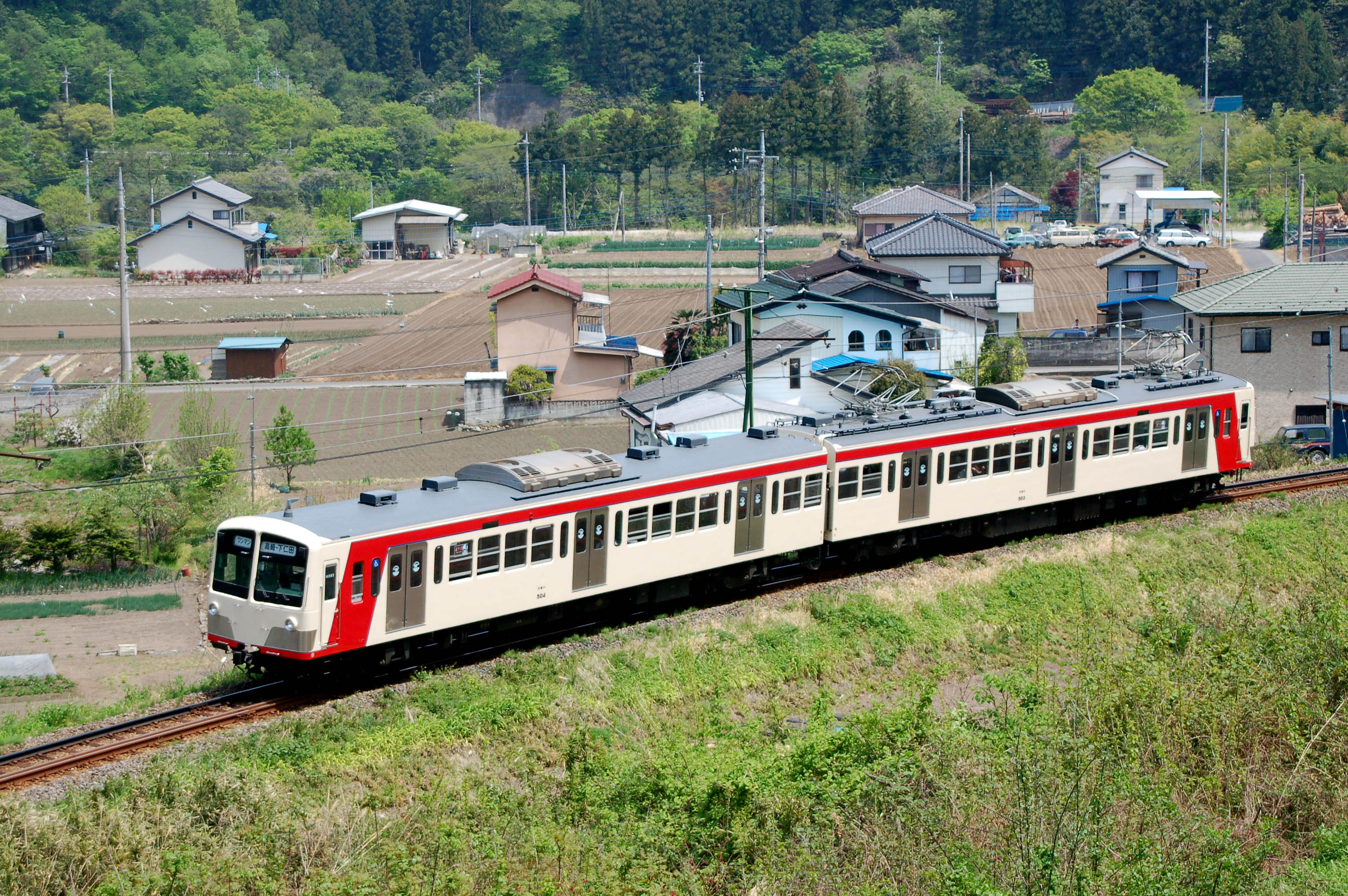 Jyoshin railway type 500 electric car. 上信電鉄500形電車。